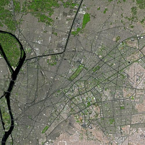 Cairo by SPOT Satellite